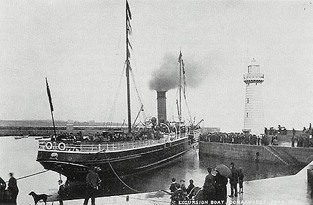 Peveril (I)